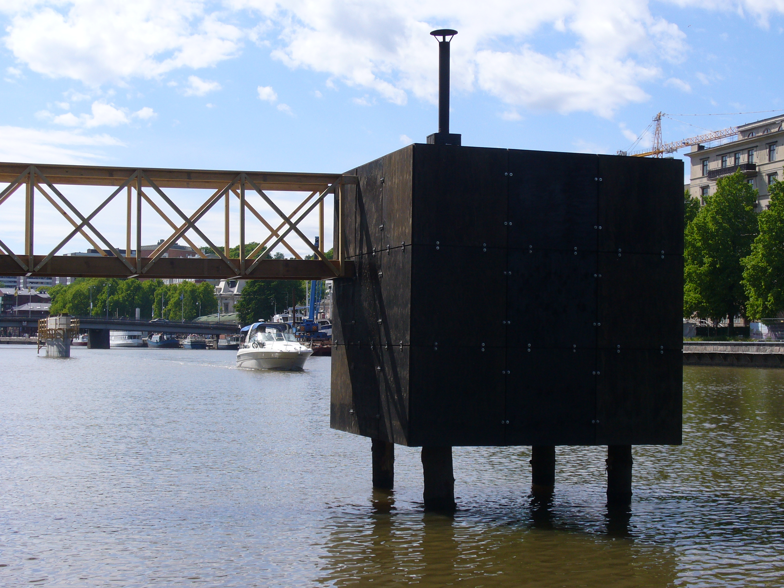 Sauna Hot Cube